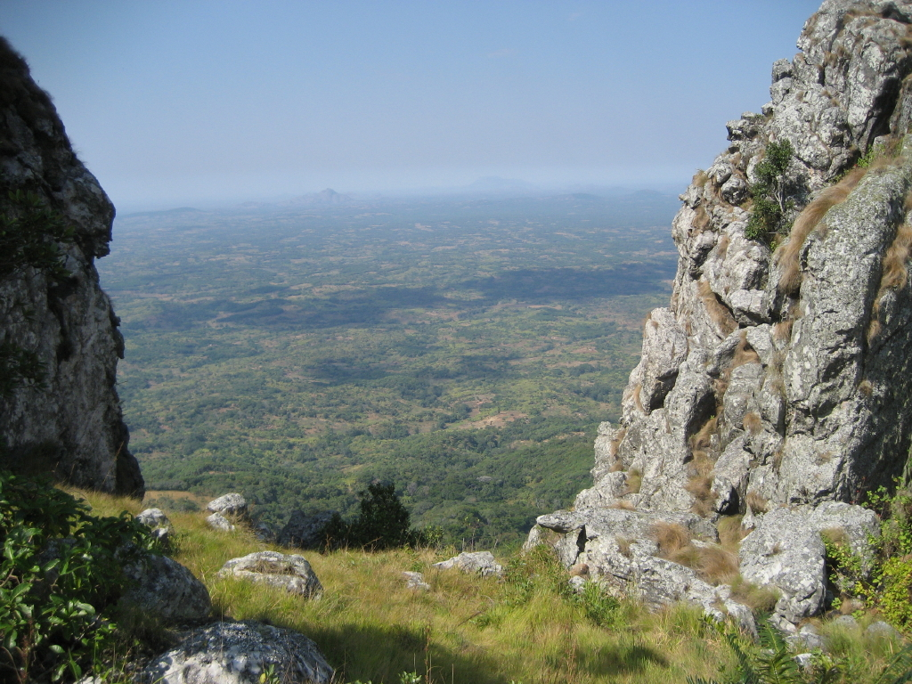 Serra Nhatoa is part of Serra Choa in Manica Province of Mozambique.